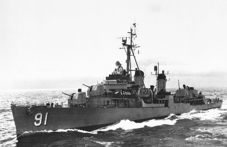 The South Korean destroyer ROKS Chung Mu (DD-91) underway, circa in 1966.